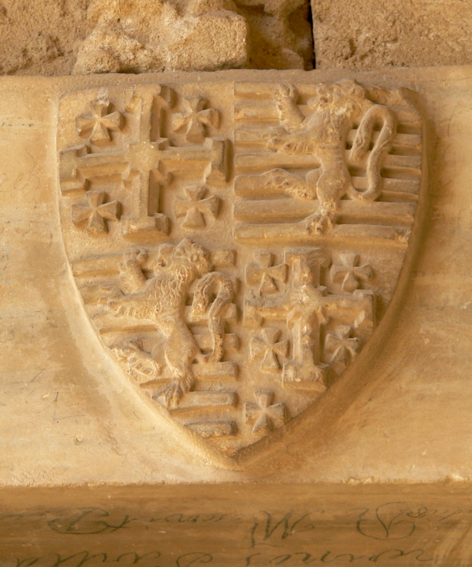 Bellapais monastery ( Northern Cyprus ). Refectory ( 14th century ): Coats of arms of the kingdom of Cyprus.